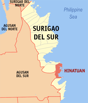 Map of the Surigao del Sur showing the location of Hinatuan